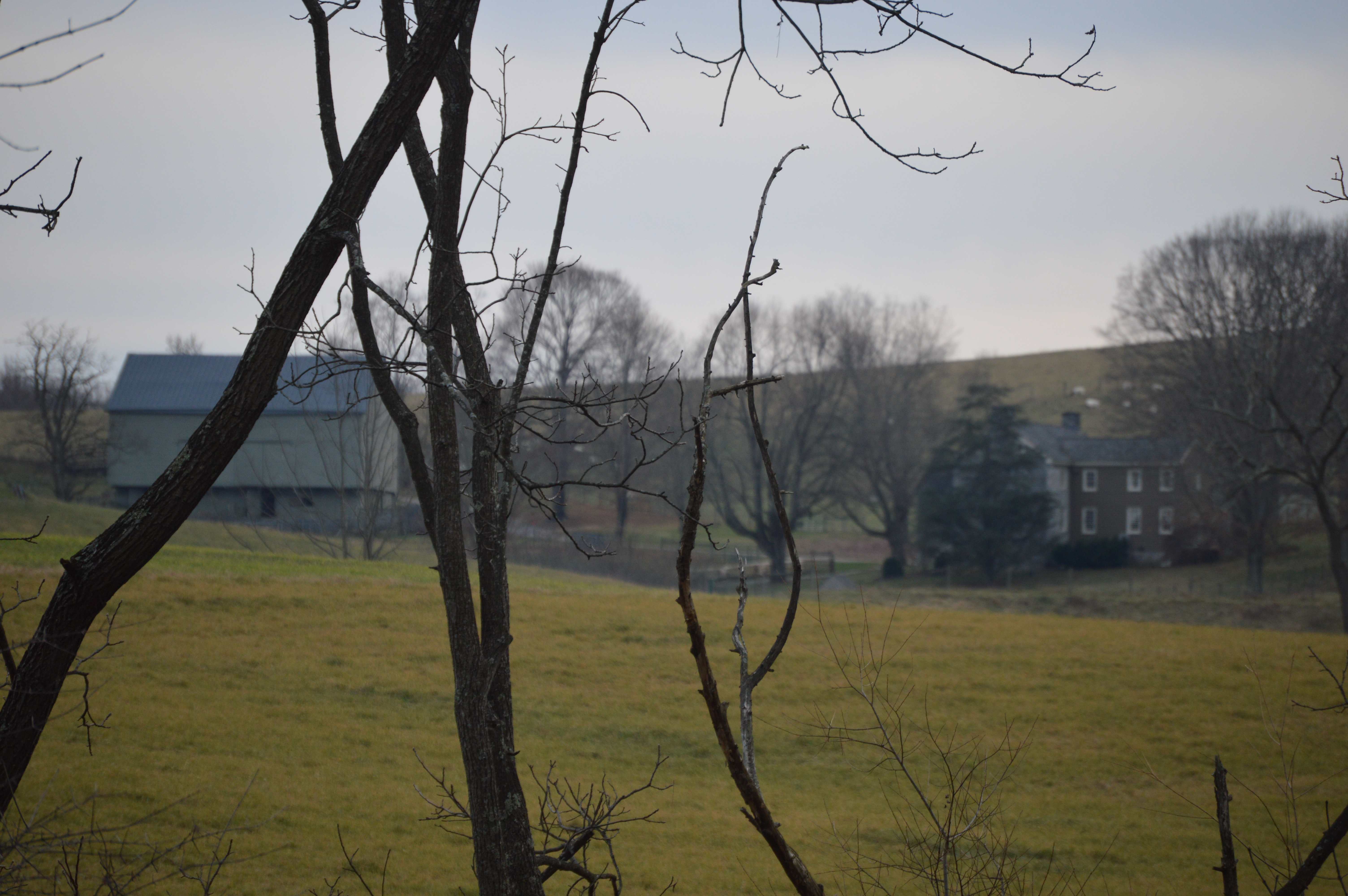 Distant and tree-obstructed view from the north of the Kennedy-Lunsford Farm, located on Raphine Road west of Raphine in Rockbridge County, Virginia, United States. Built in 1775, the farmstead is listed on the National Register of Historic Places.